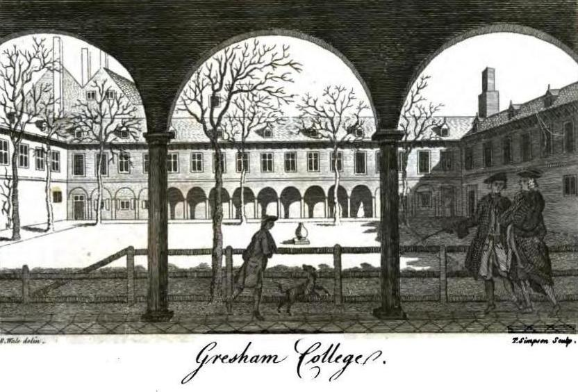 Interior view of Gresham College, London, from John Entick, A new and accurate history and survey of London, Westminster, Southwark, and places adjacent vol. 3, 1766.